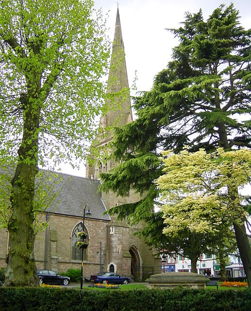 Church of St Stephen, Redditch. From Church Green East